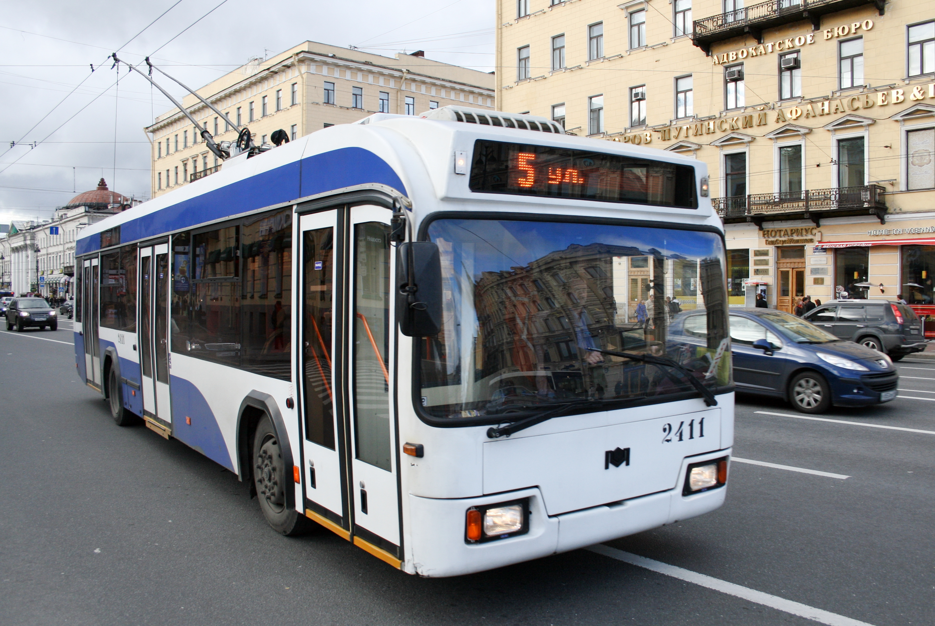 O-Bus (АКСМ-321) in Russia (Saint Petersburg, Nevsky Avenue).